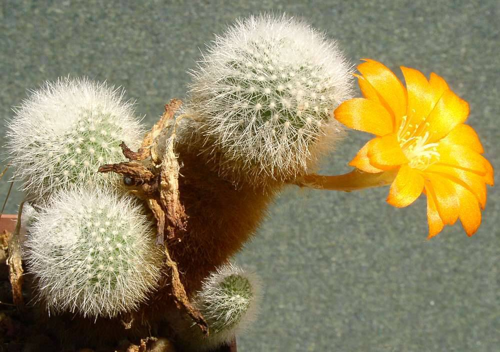 Rebutia muscula Ritter et Thiele var. muscula - cultivated plant from own collection.